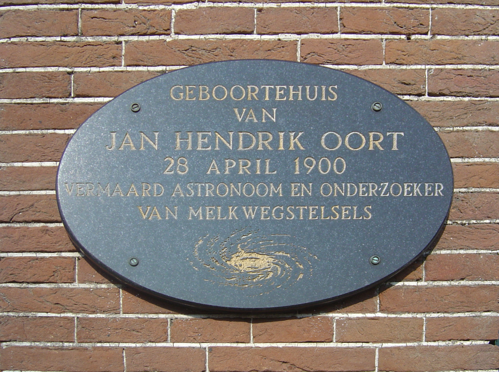 Commemorative plate at the house where Jan Hendrik Oort was born, Franeker, Netherlands